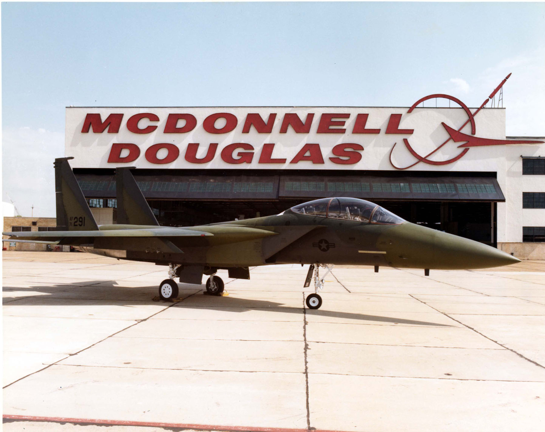 McDonnell Douglas F-15E Prototype. Side view of prototype F-15E.